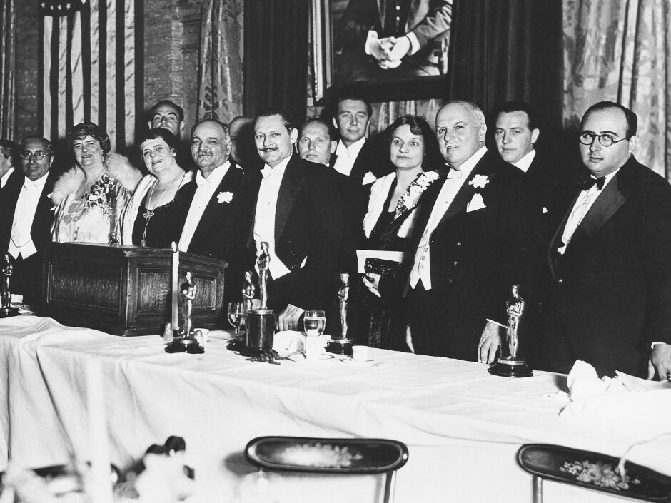 4th Academy Awards